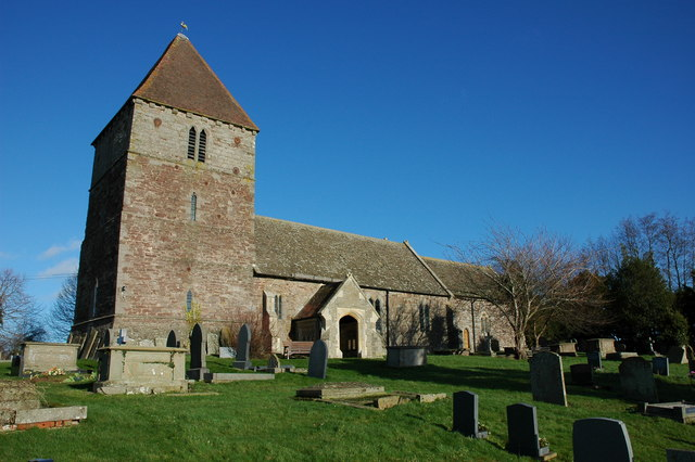 Staunton on Wye church The church of St Mary at Staunton on Wye is on high ground with a good view over the Wye Valley to the south.